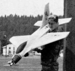 Spec. Guy Adams of 1st battalion 67th ADA with the Fighting Falcon target drone, otherwise known as FQM-117C manufactured by RS Systems